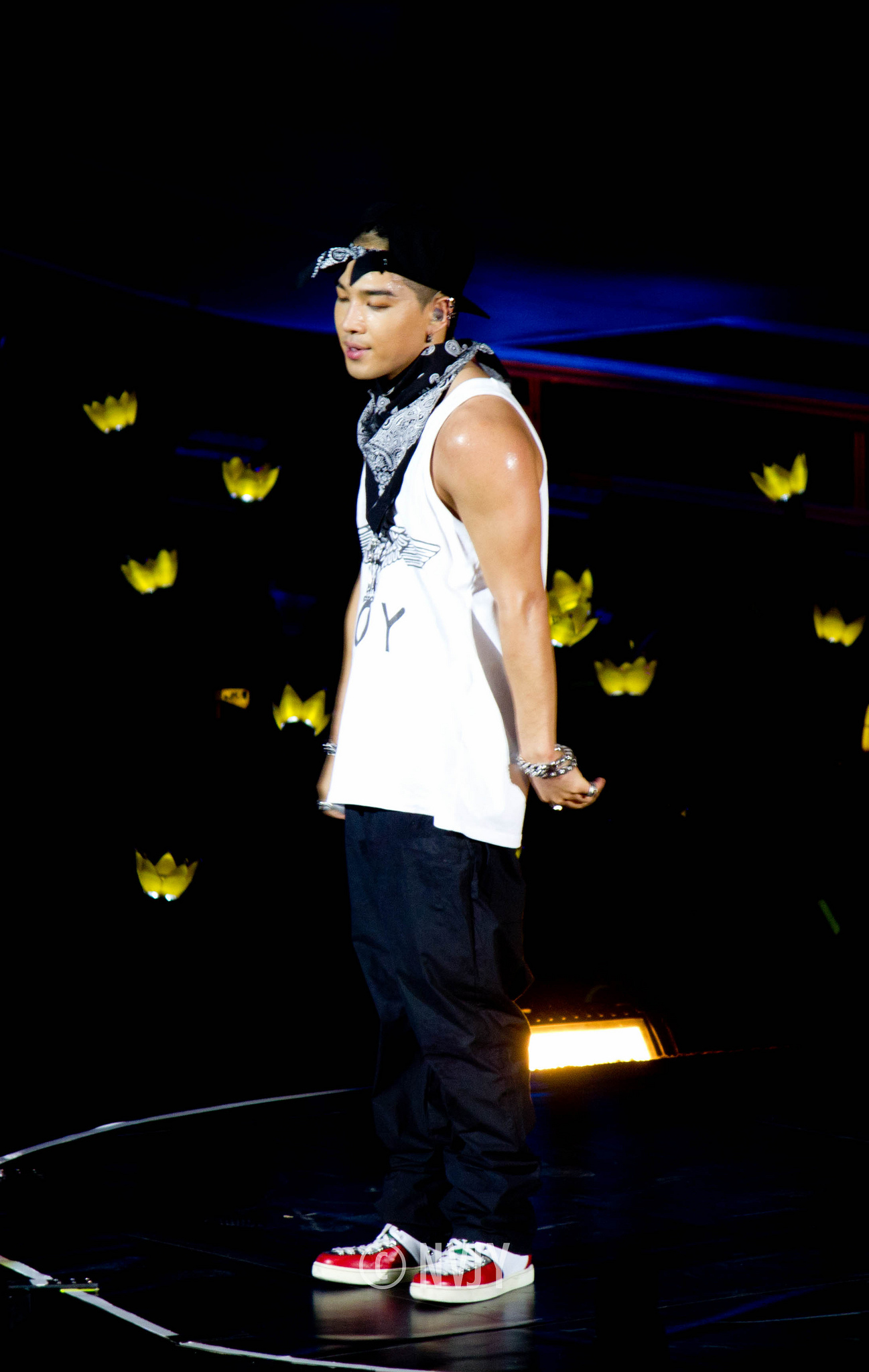 Taeyang performing on Alive World tour